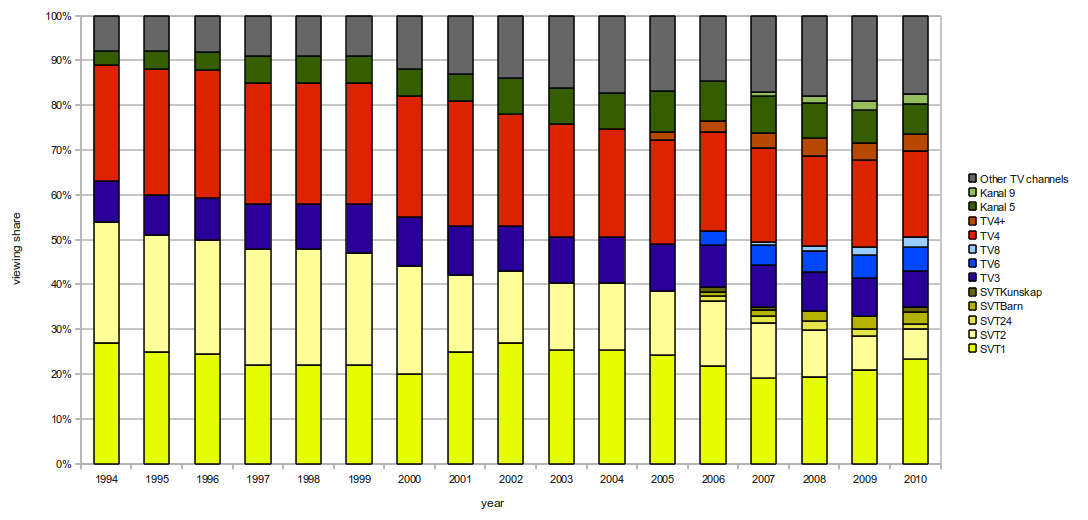 Diagram of viewing shares for television channel in Sweden 1994-2010 using data from In 2008 and 2009 the share for Barnkanalen and Kunskapskanalen were not given separately.